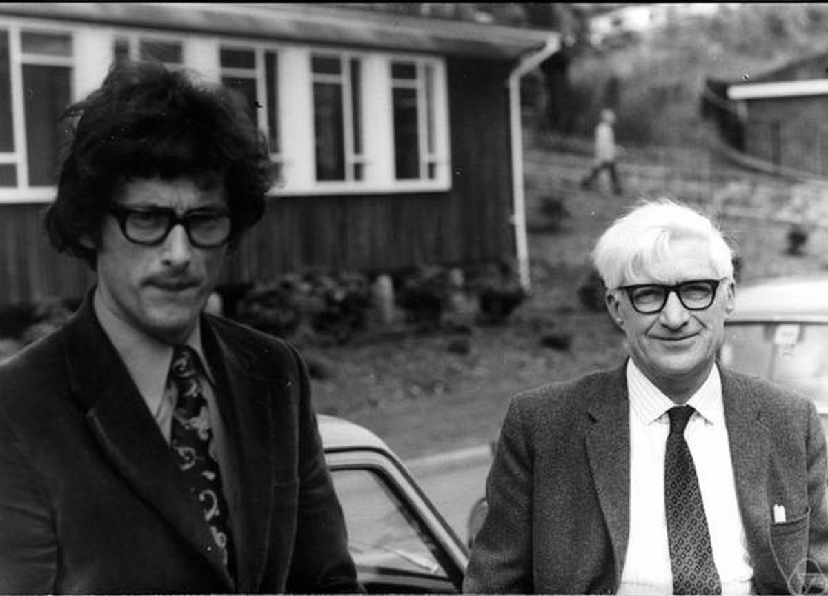 D. E. Littlewood (Dudley Ernest Littlewood) (right) with Alun O. Banghor, Wales 1970